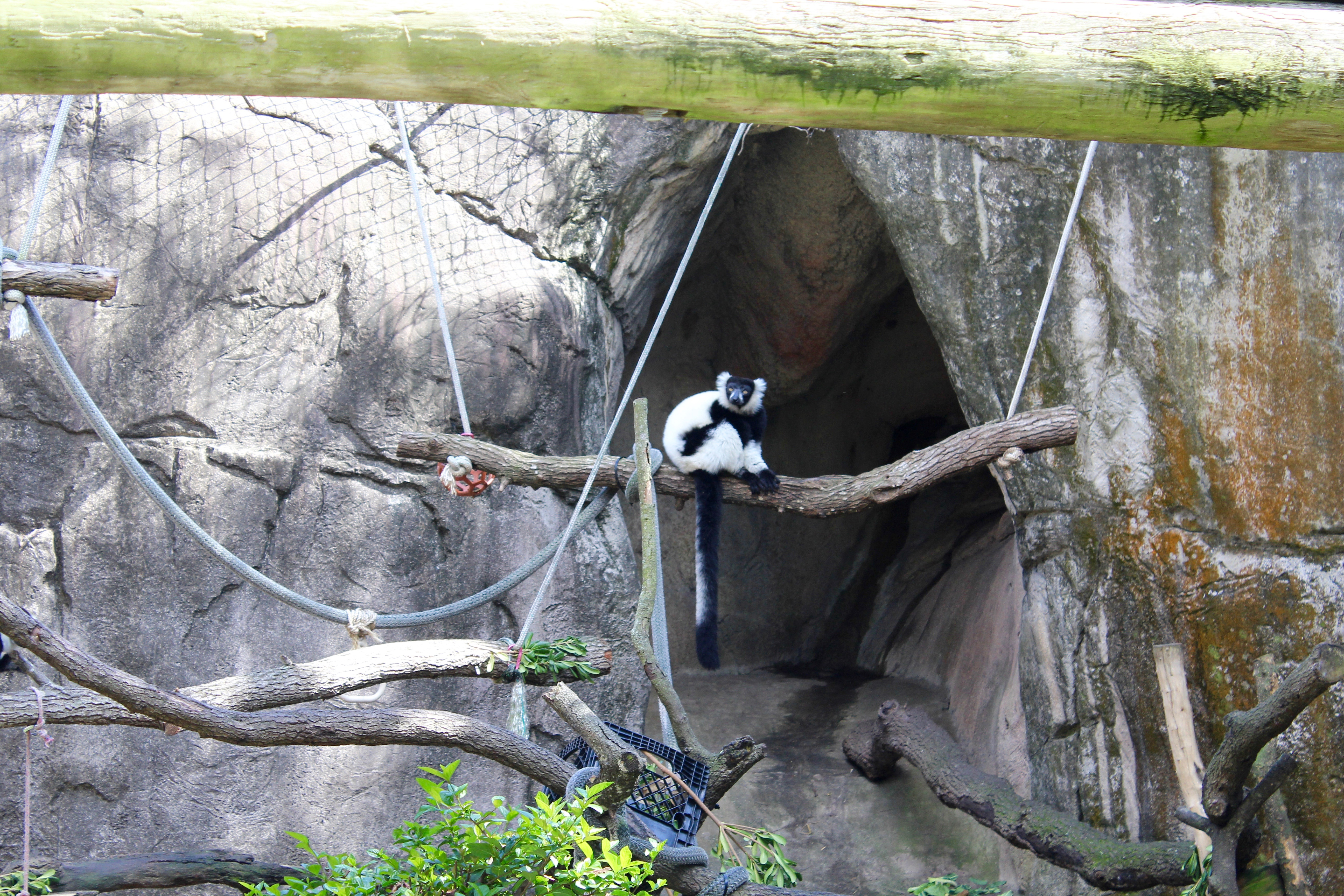 Lemur at the Audubon Zoo in New Orleans, LA